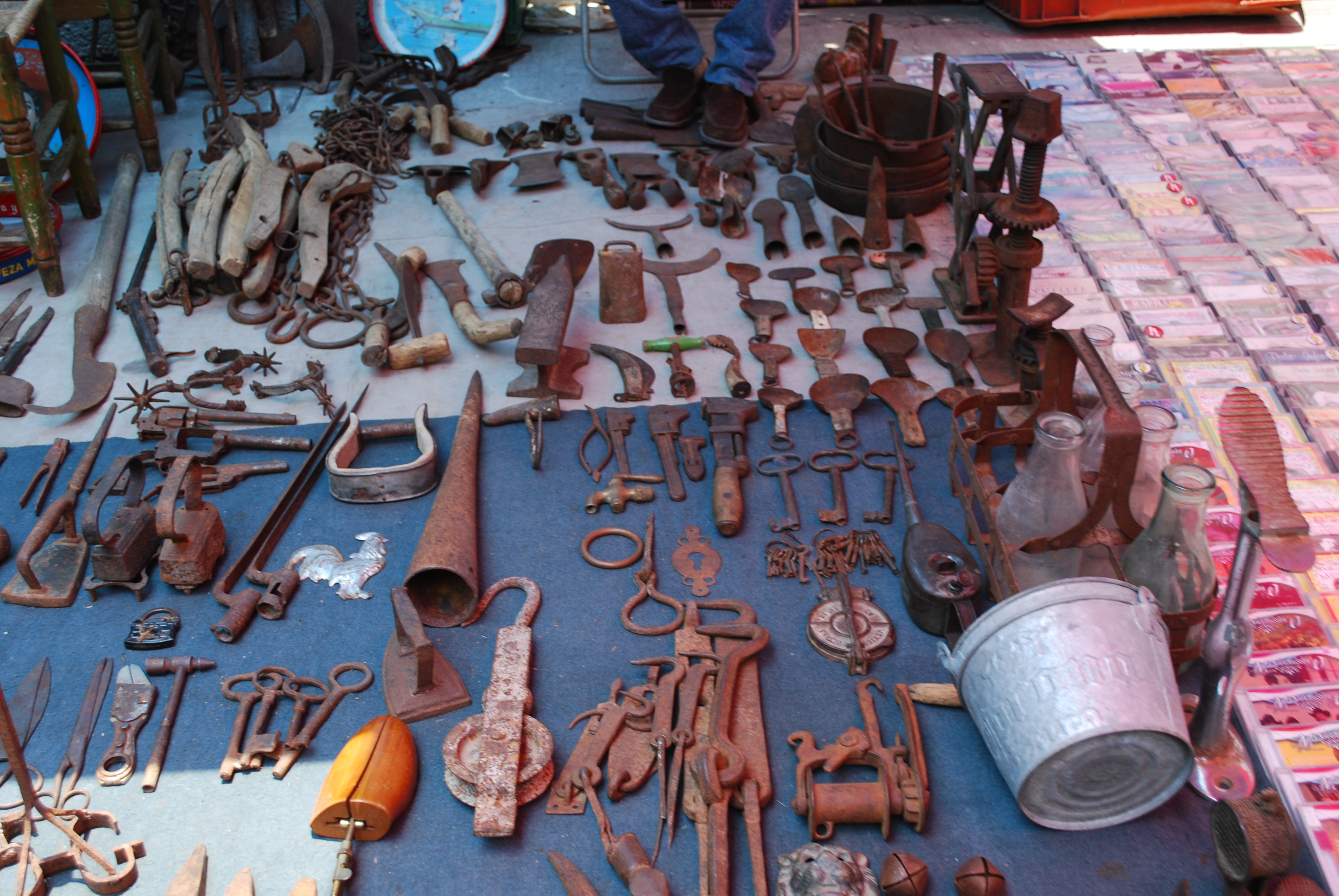 Iron pieces for sale at the Sunday Lagunilla antiques market in Mexico City